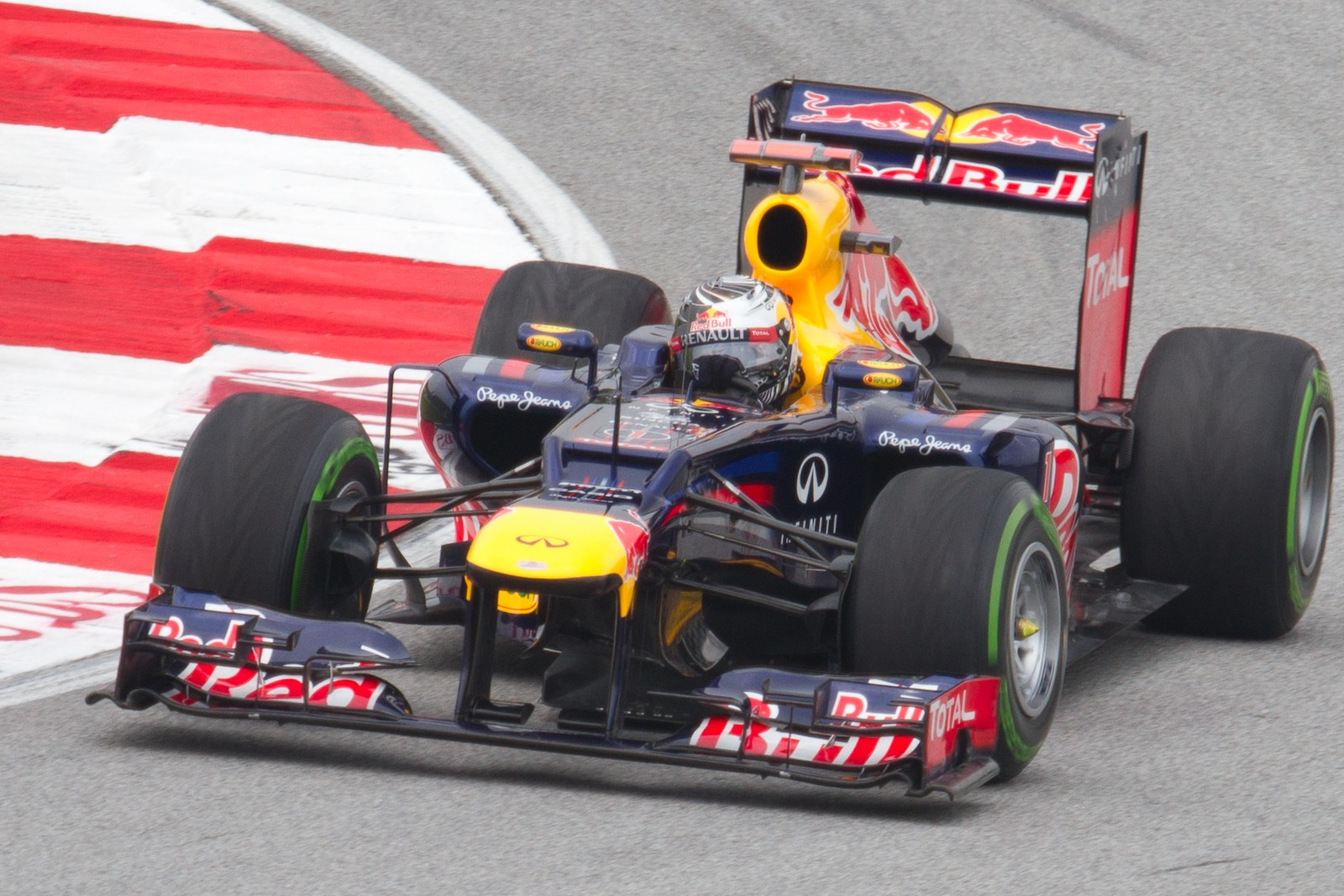 Formula One 2012 Rd.2 Malaysian GP: Sebastian Vettel (Red Bull) during the third practice session on Saturday.